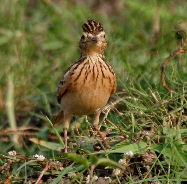 Oriental Skylark or Oriental Lark or Small Skylark Alauda gulgula in Kolleru, Andhra Pradesh, India.